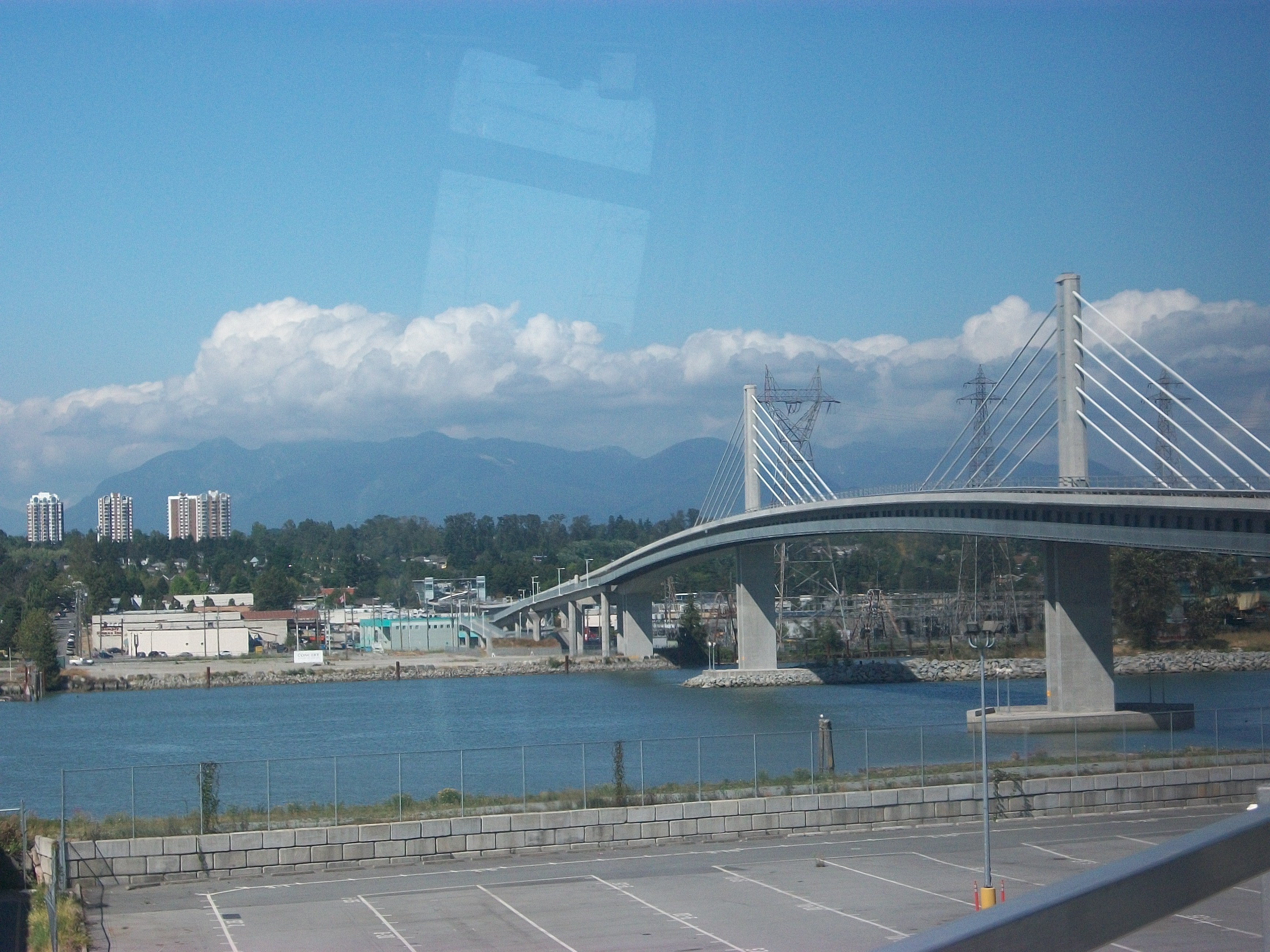 The North Arm Bridge shot from a SkyTrain that has just left the bridge, heading to Bridgeport Station